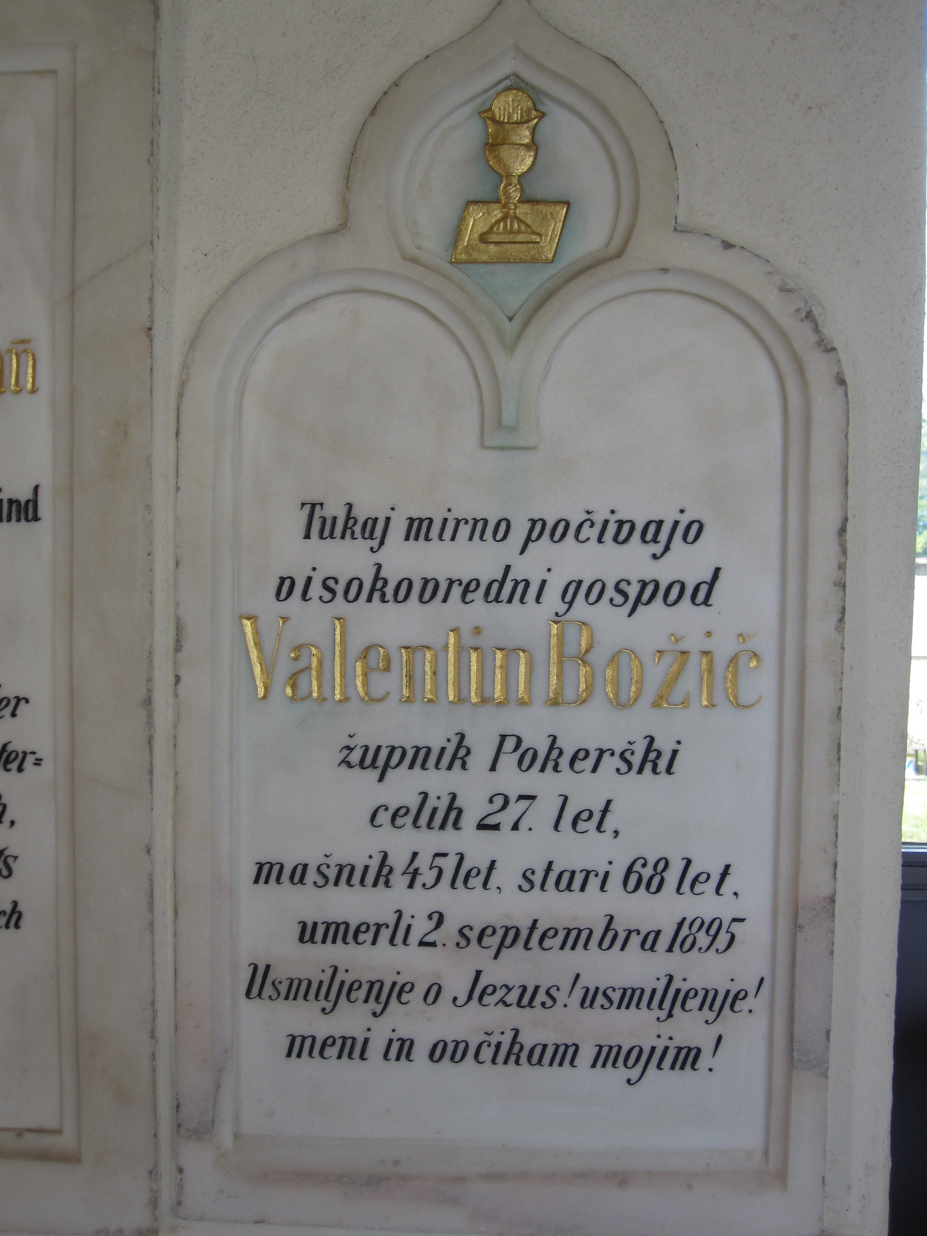 Slovenian tombstone of Valentin Božič in the church of Poggersdorf/Pokrče CarinthiaAustria